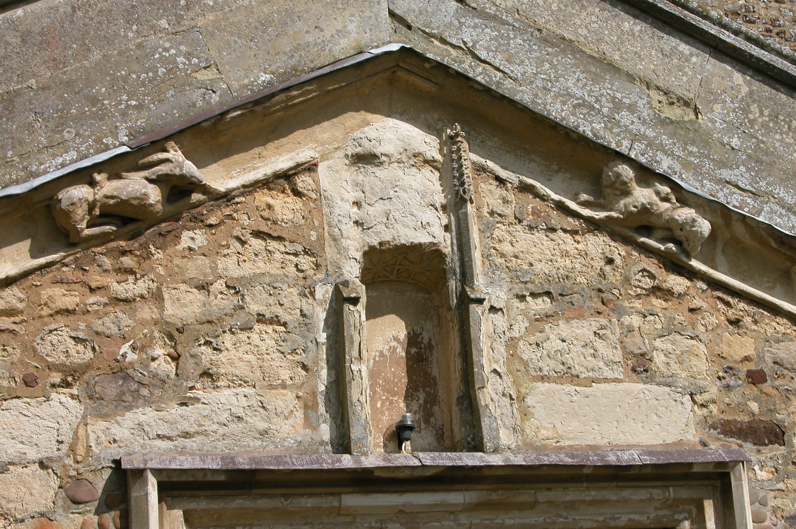 All Saints Church Wing, Buckinghamshire, England - Anglo Saxon Church